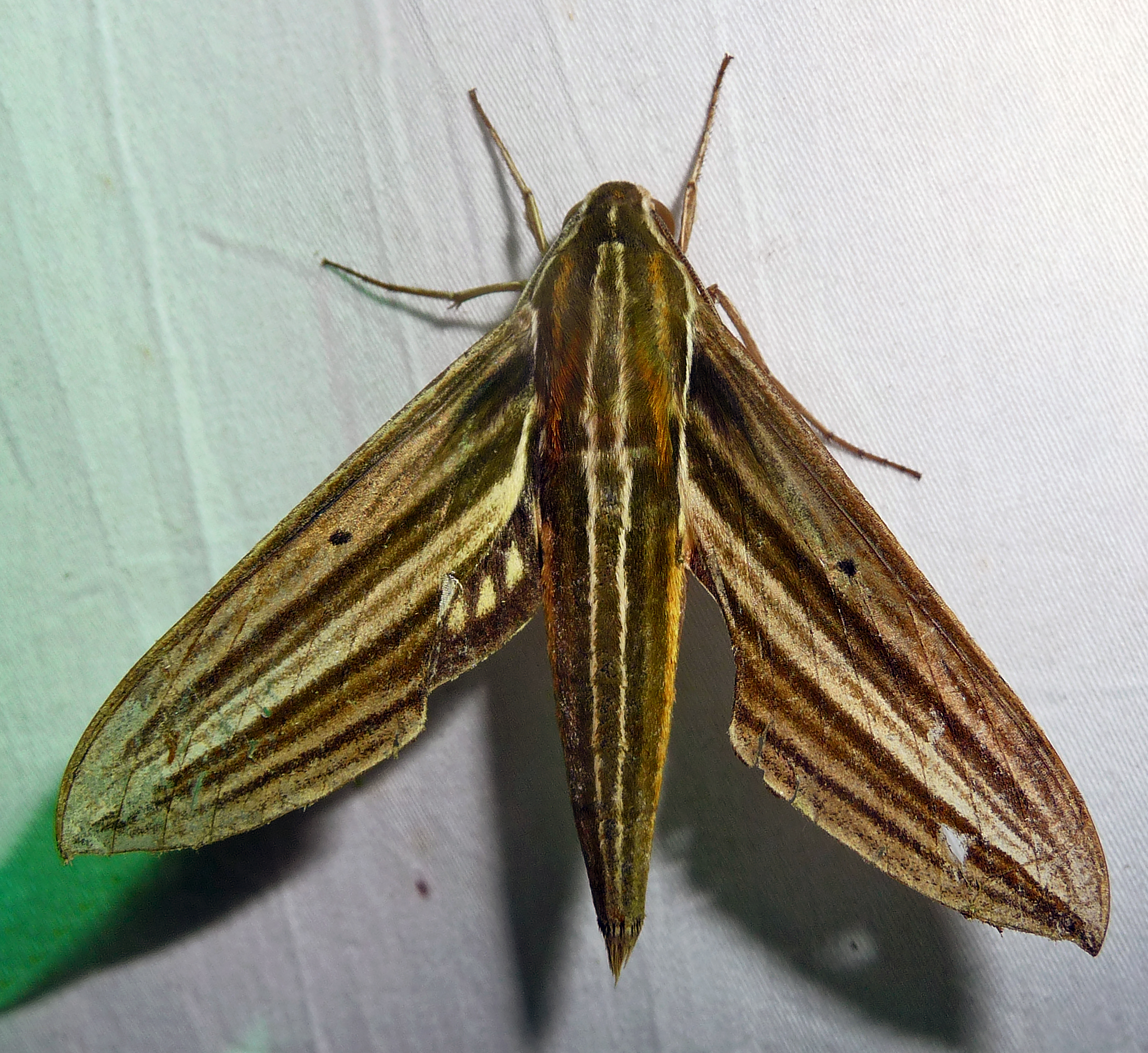 Sphingidae. Macroglossinae. Macroglossini. Xylophanes titana.